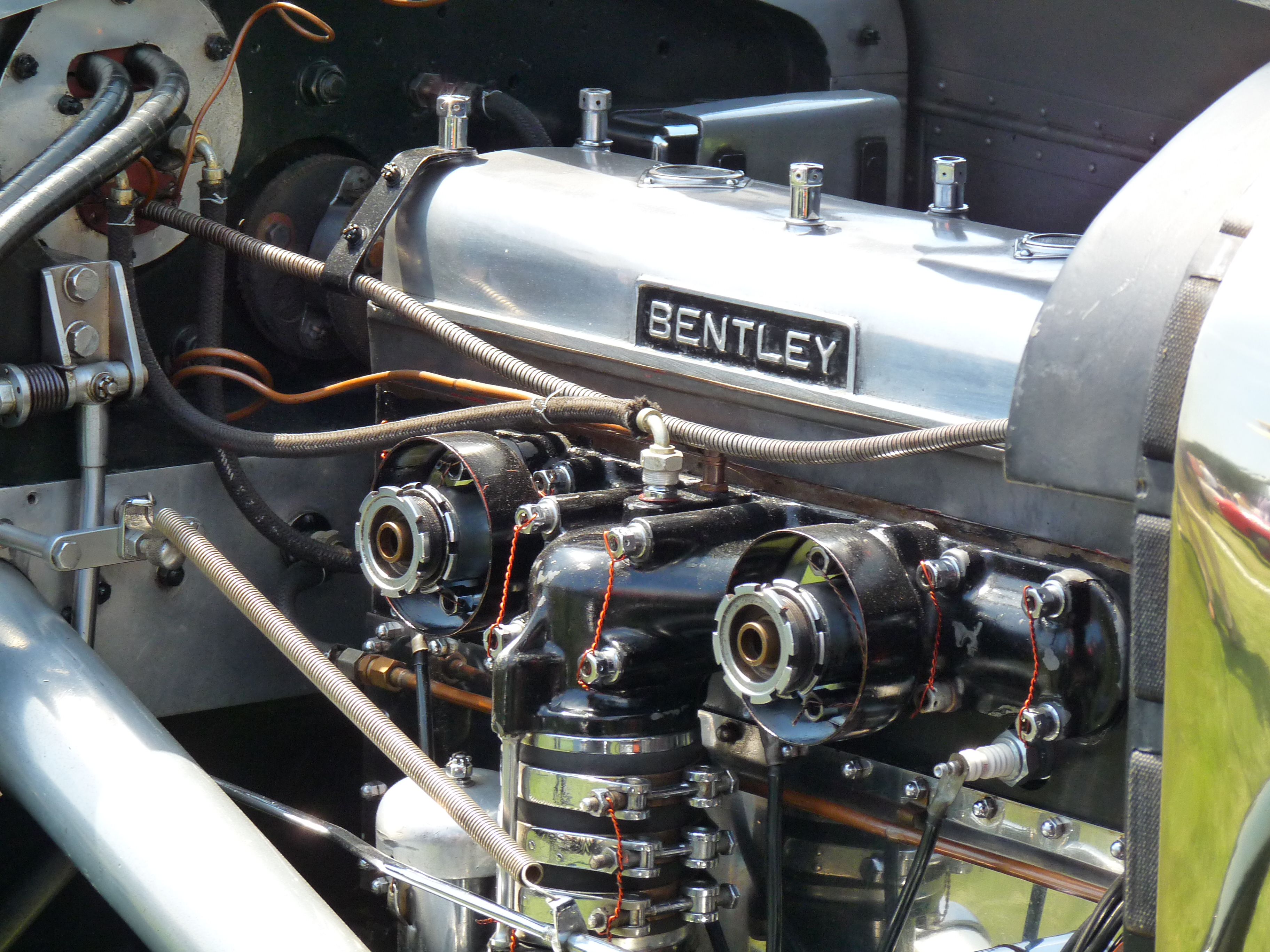 1928 Bentley 4 1/2 litre Vanden Plas Le Mans Tourer "Birkin Blower 4"